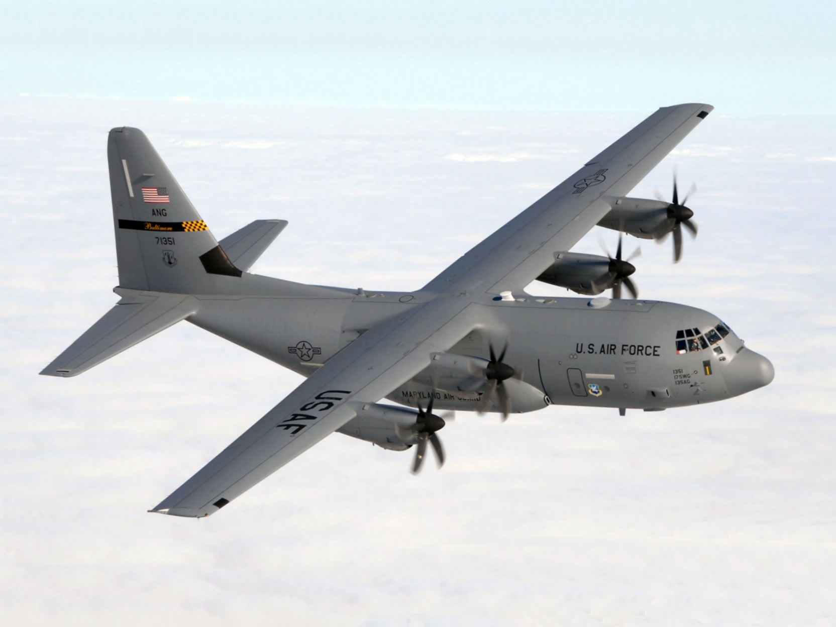 A U.S. Air Force Lockheed Martin C-130J Hercules aircraft (s/n 97-1351) from the 135th Airlift Squadron, 175th Wing, Maryland Air National Guard stationed at Warfield Air National Guard base in Baltimore, Maryland (USA), in flight during a training exercise.